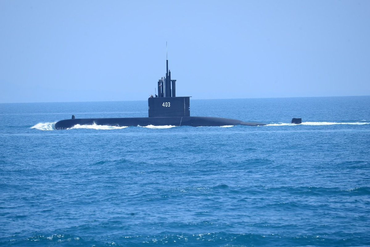 KRI Nagapasa (403), a Chang-Bogo class submarine of the Indonesian Navy